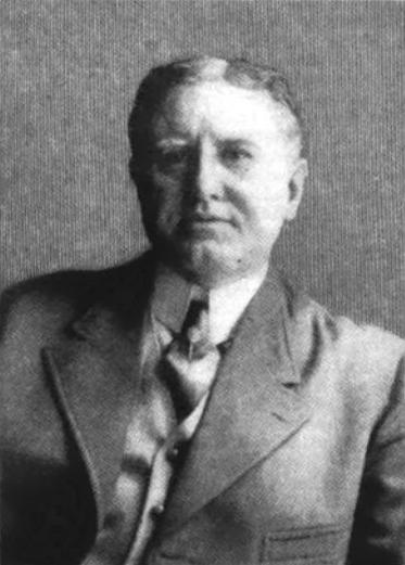 1910 portrait of William Sydney Porter, also known by his pen name O. Henry.